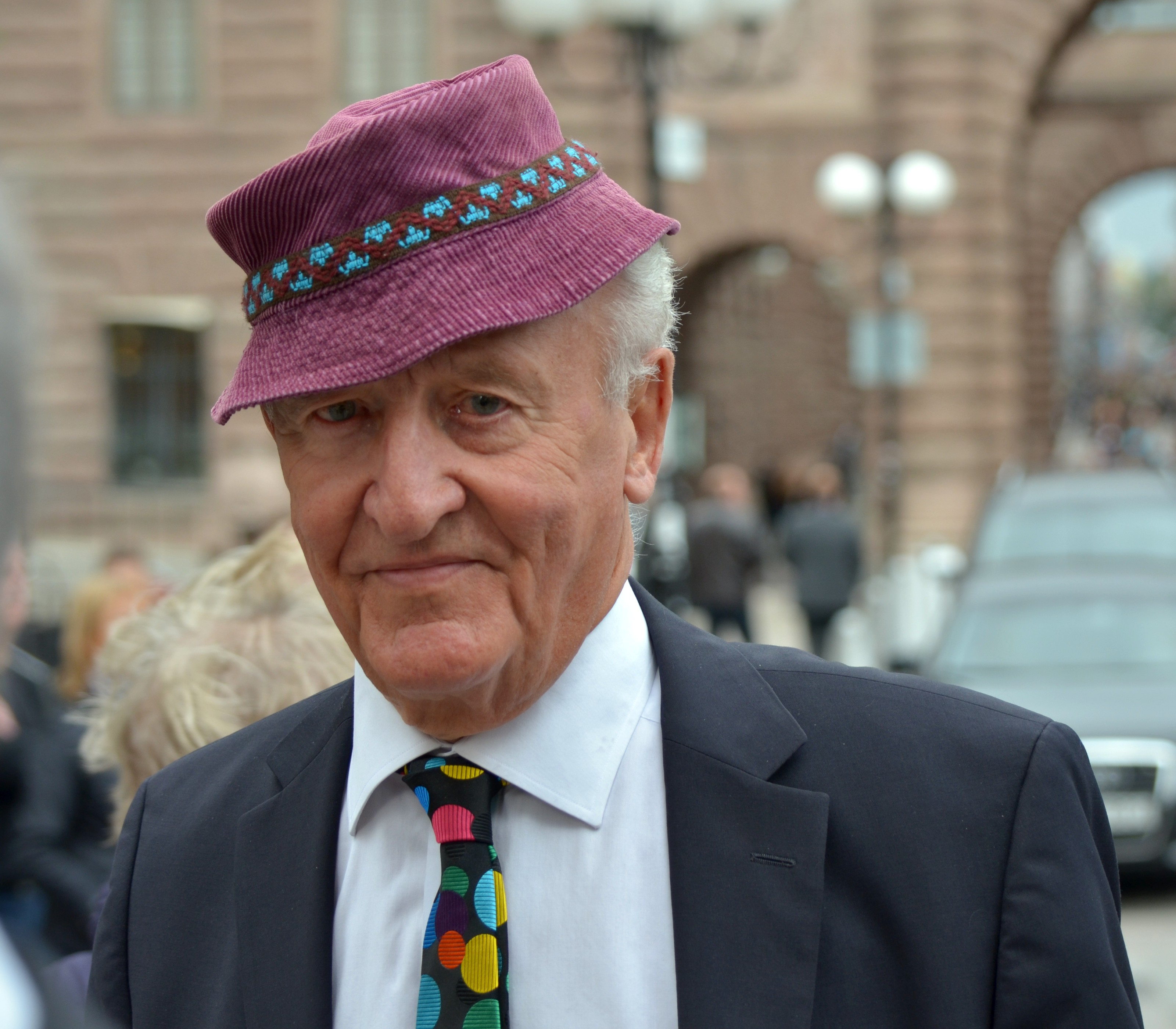 Ian Wachtmeister, swedish count and politican.